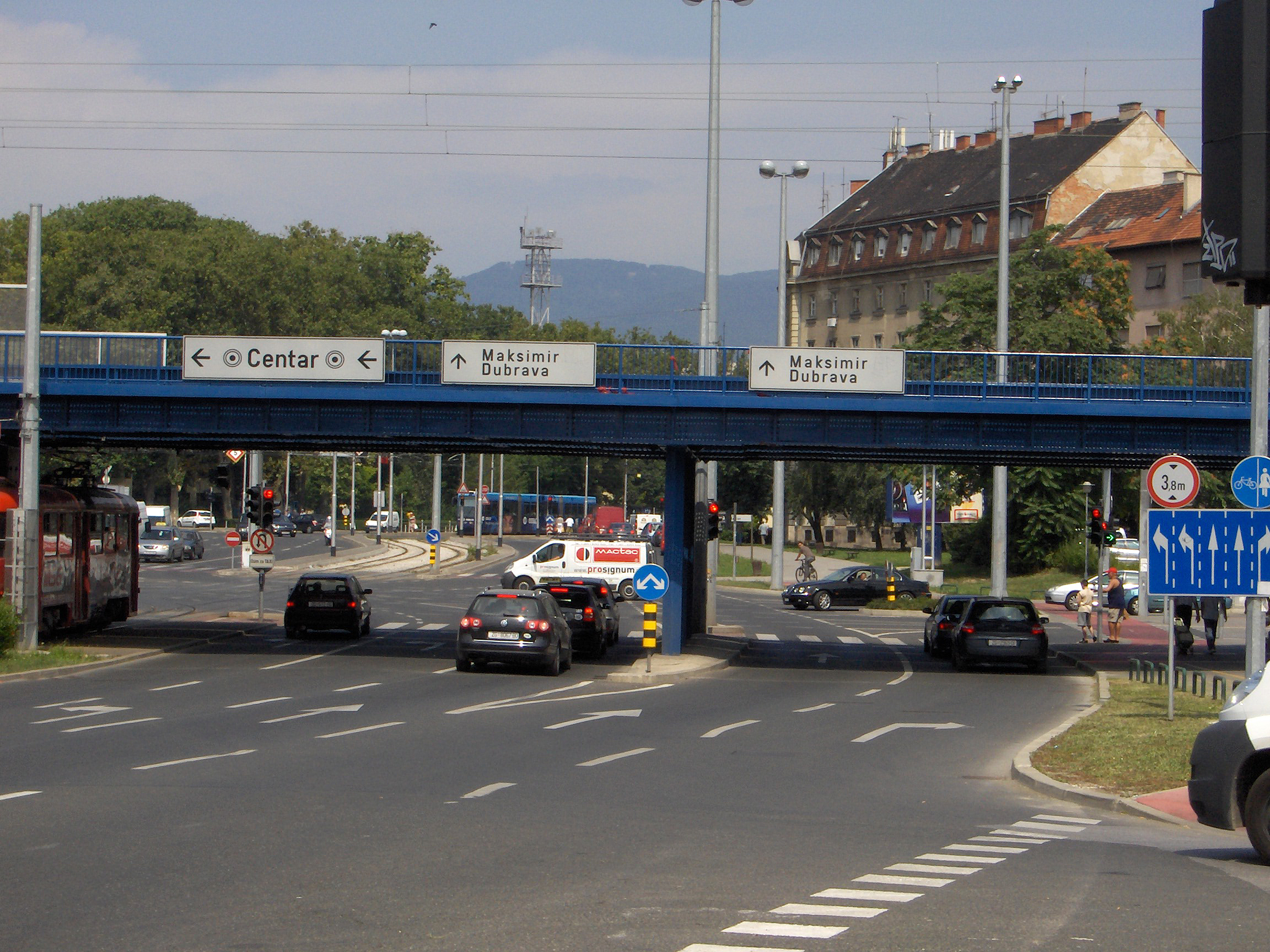 The southern tip of Pavao Šubić Avenue in Zagreb, Croatia, looking north.